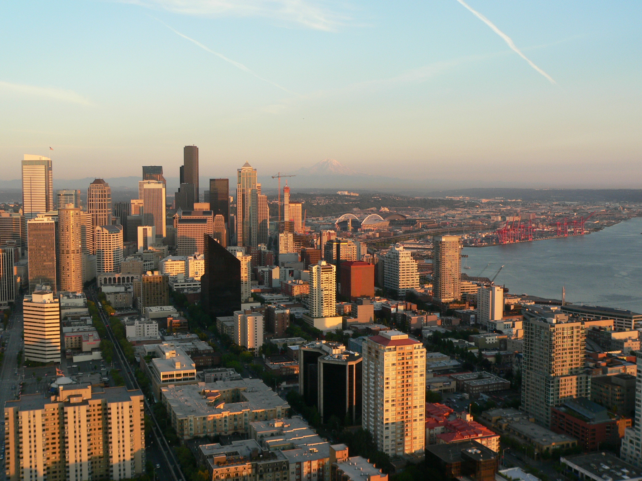 A view of Downtown Seattle (and, beyond that, the Industrial District) from the top of the Space Needle on an August afternoon in 2005.